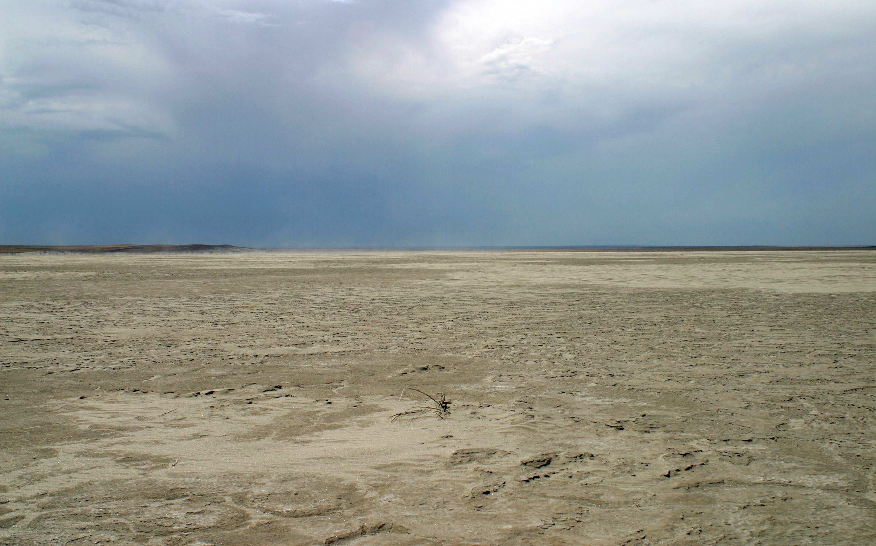 Storm moving across the large saline playa (called Arch Lake) within Grulla National Wildlife Refuge, New Mexico